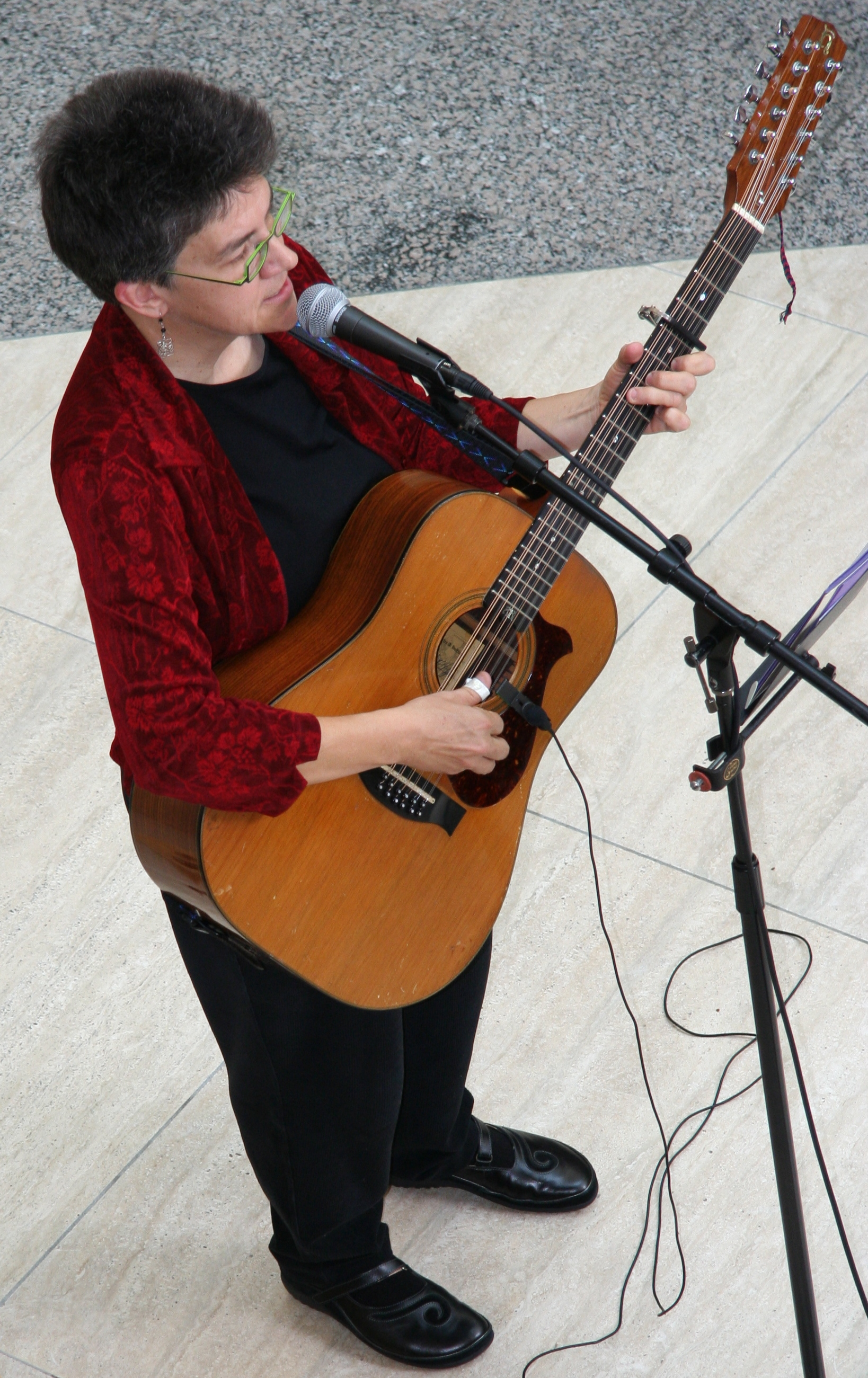 Ann Reed playing guitar and singing at the Mayo Clinic in Rochester, Minnesota